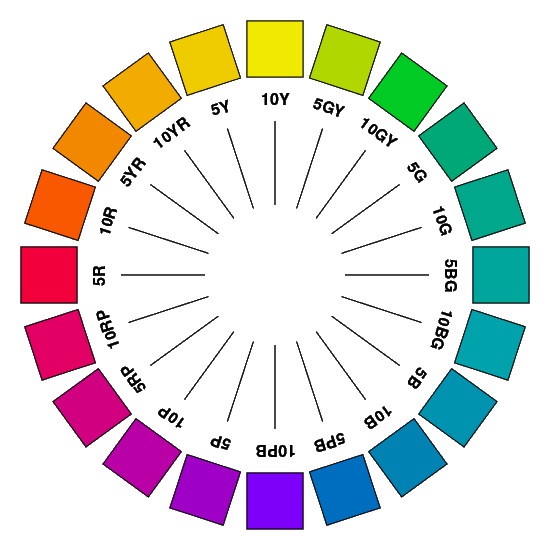 Munsell Color Wheel